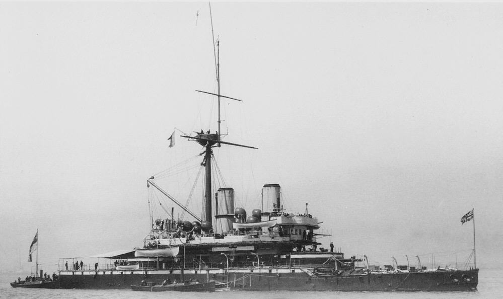 HMS Devastation (1871).